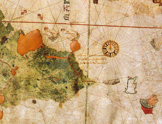 Map of Juan de la Cosa, 1500. Detail: eastern end of South America.